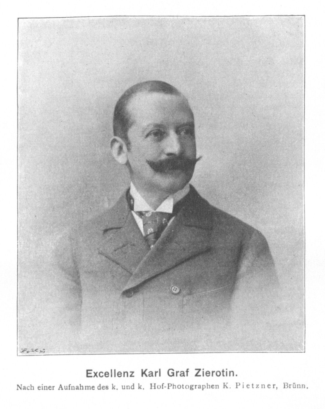 Portrait of Karel Emanuel ze Žerotína (1850-1934), in German sources mentioned as Karl Graf Zierotin, a politician from Moravia (present-day Czech Republic).